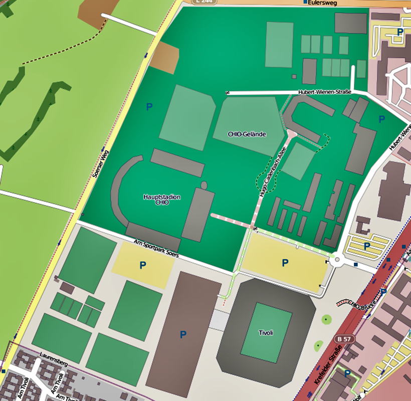 This map may be incomplete, and may contain errors. Don't rely solely on it for navigation.